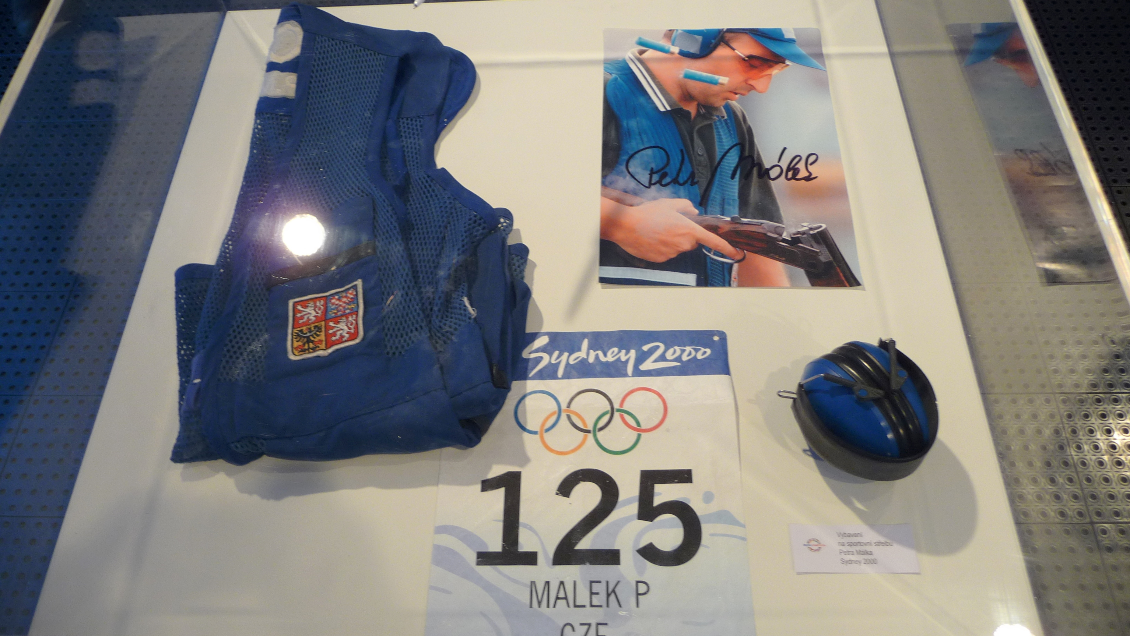 Equipments of Petr Málek from Sydney 2000, Žijeme Londýnem, Freedom Square, Brno